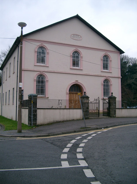 Siloa Chapel, Aberdare Siloa Chapel, Aberdare. Opposite the large Job Centre Plus Buildings, adjacent to Aberdare Library